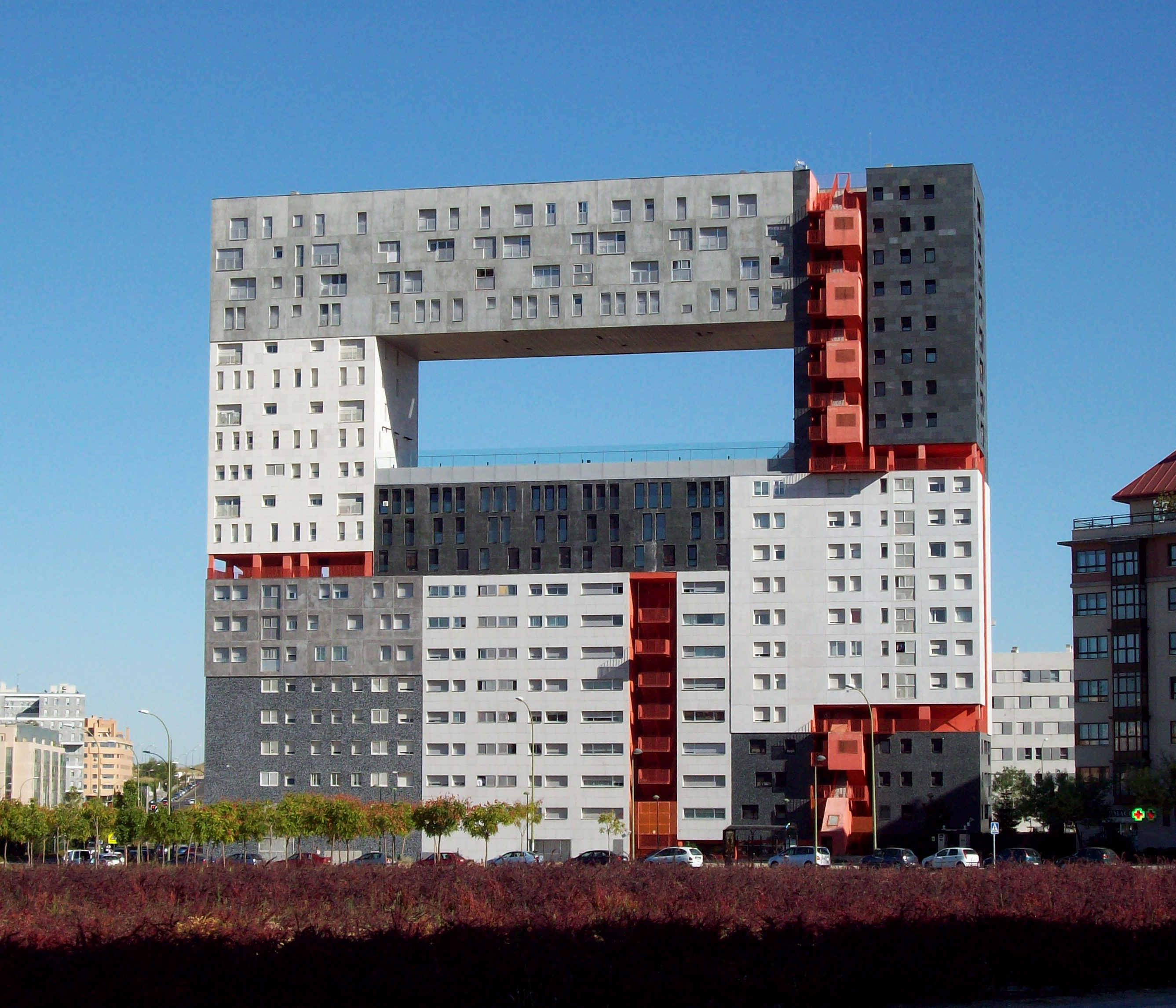 Façade of Mirador Building in Madrid (Spain).